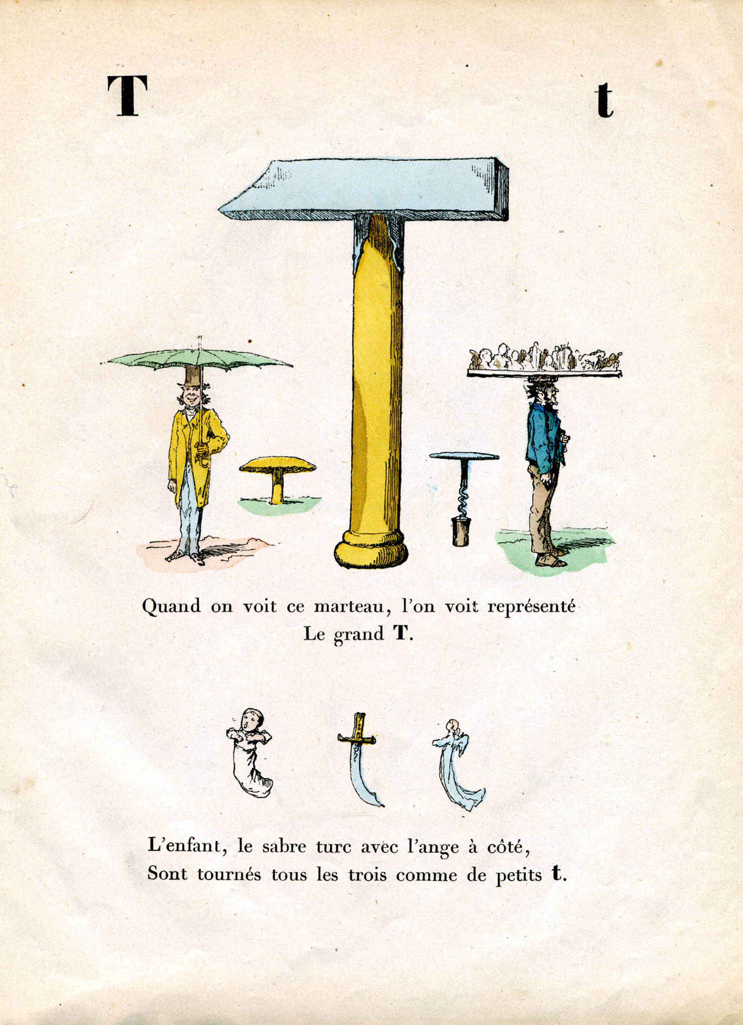 Letter T in the book